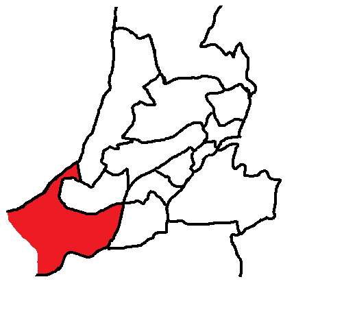 Map based on work by Earl Andrew, from maps used in 2007 elections Map based on work by Earl Andrew, from maps used in 2007 elections